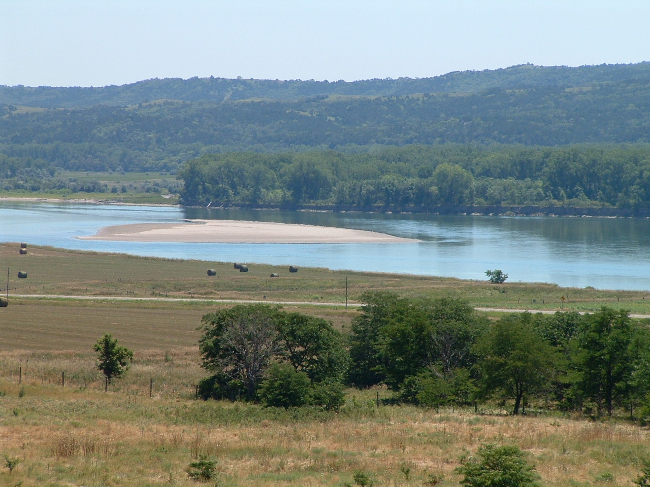 Looking toward Sunshine Bottom from the Yankton Sioux reservation